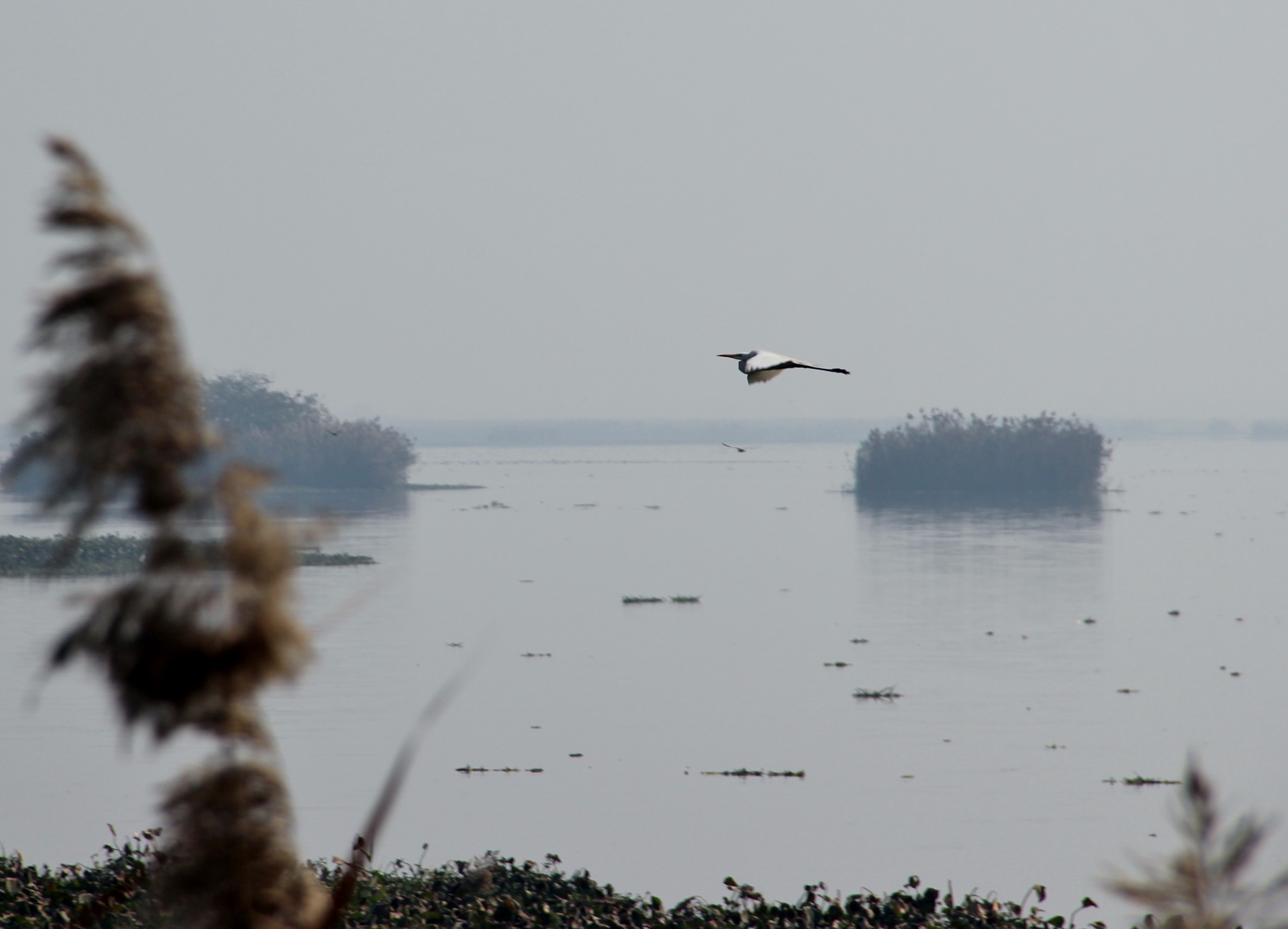 Cattle Egret, bird flying over the Harike Wetlands, Punjab State, India